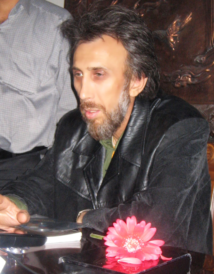 Hossein Shahabi Iranian film director 2012